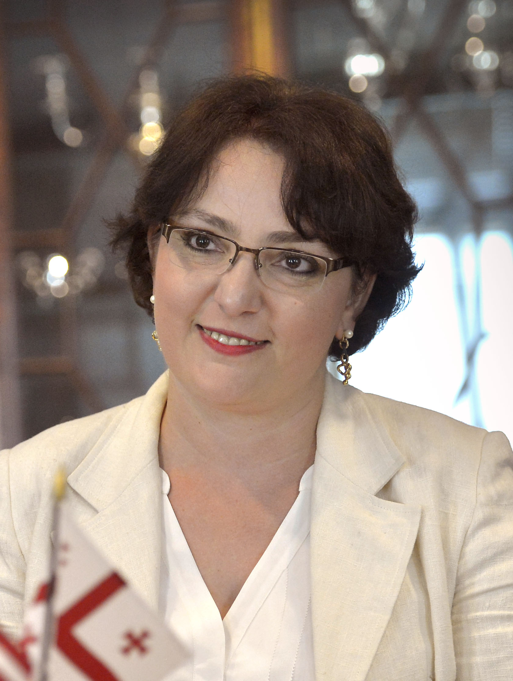 Georgian Minister of Defense Tinatin Khidasheli listens as Secretary of Defense Ash Carter makes opening comments at the top of a meeting at the Pentagon, August 18, 2015.